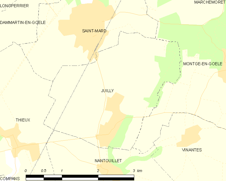 Map of French municipality Juilly